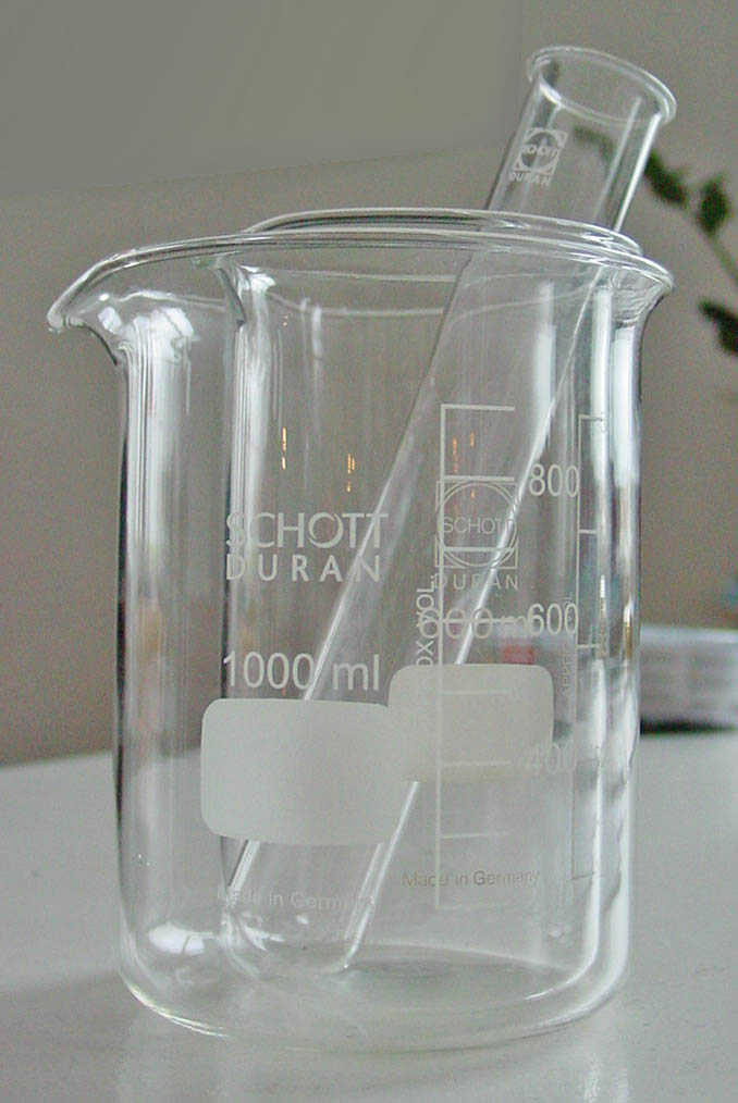 Schott Duran glassware. A 1000 ml and 600 ml beaker and a 30mm diameter test tube.